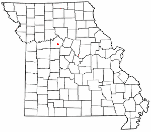 Modified from a map on Wikipedia.